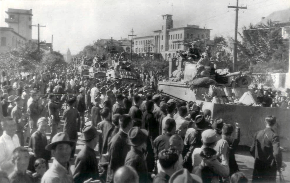 Lanshan Road Tsingtao, citizens welcoming US Marine